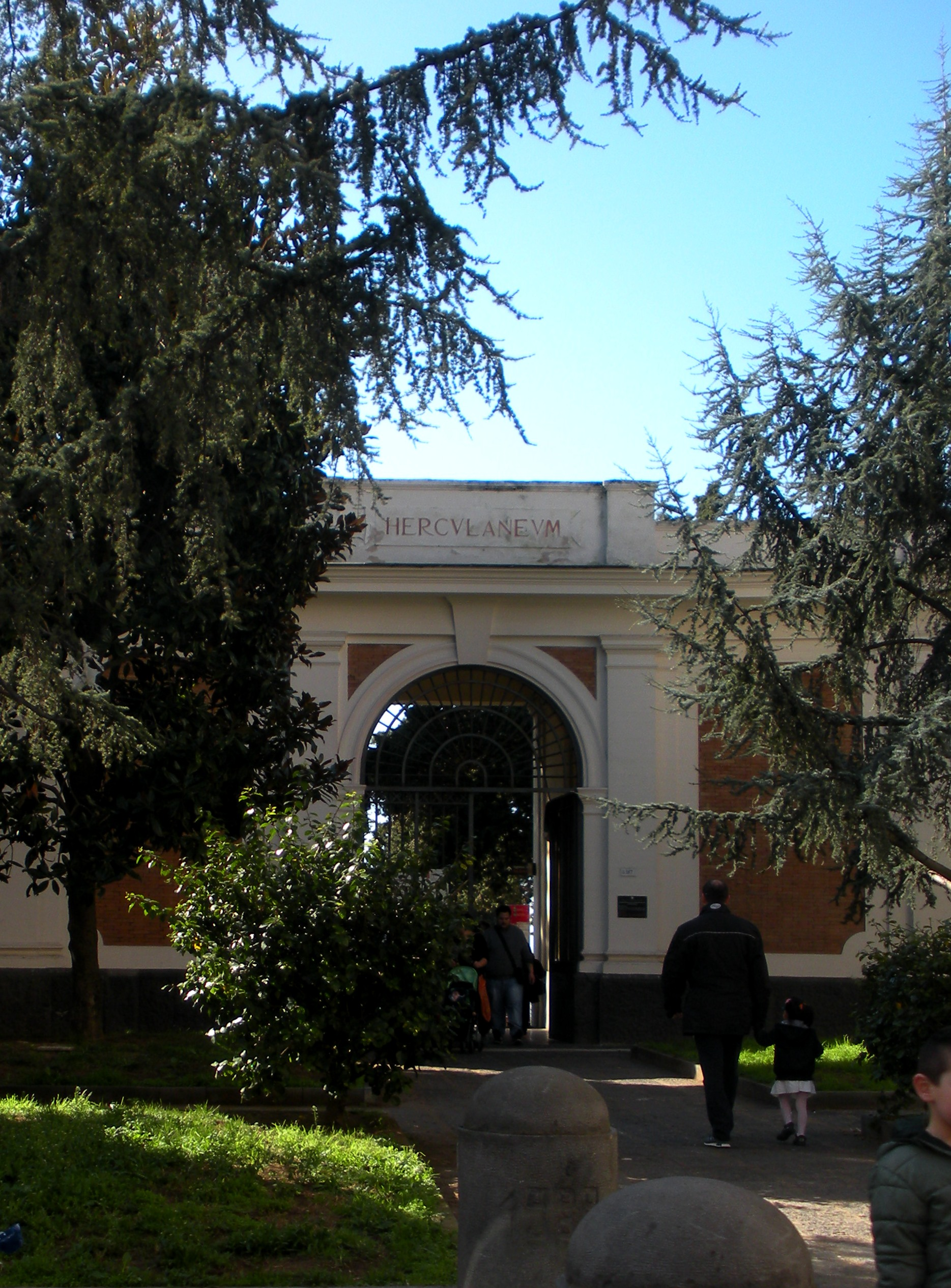 The entrance of the archeologic site of Herculaneum from city centre